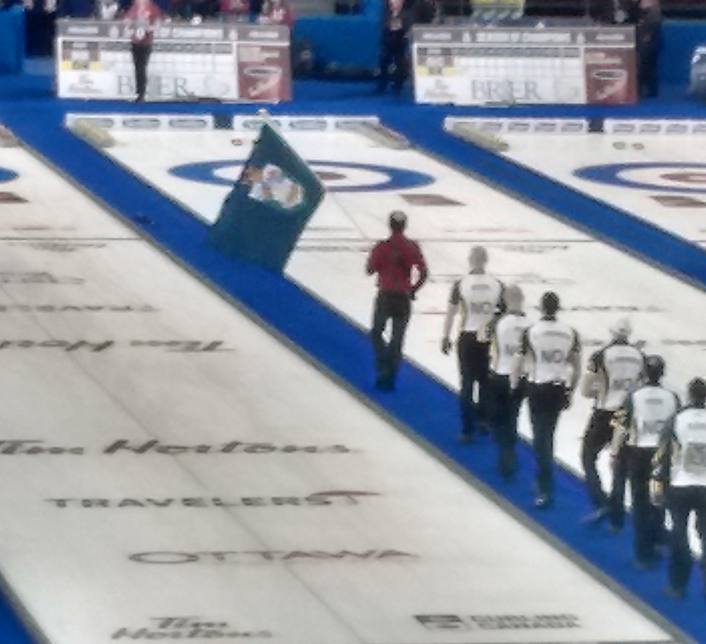 Flag of Northern Ontario used at the Tim Hortons Brier